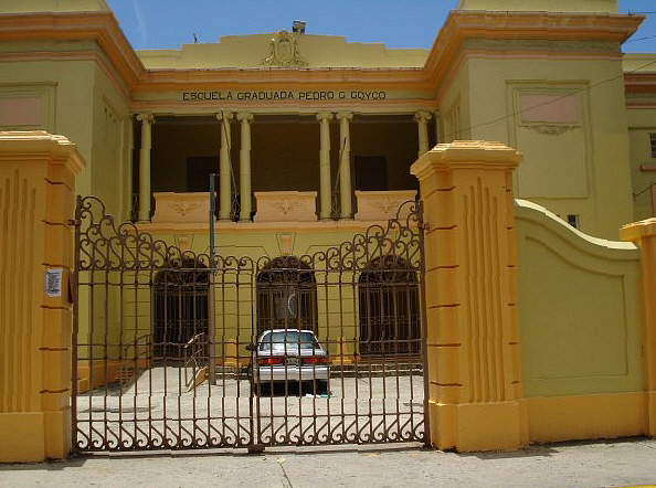 Foto de la escuela Pedro G. Goyco en Puerto Rico